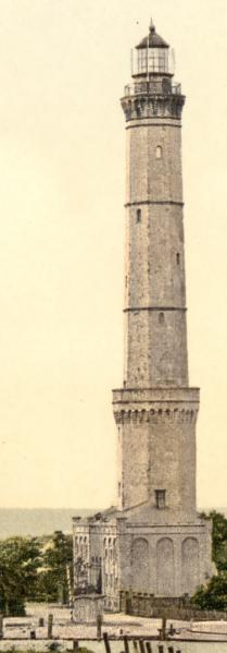 Świnoujście on old postcard (fragment).